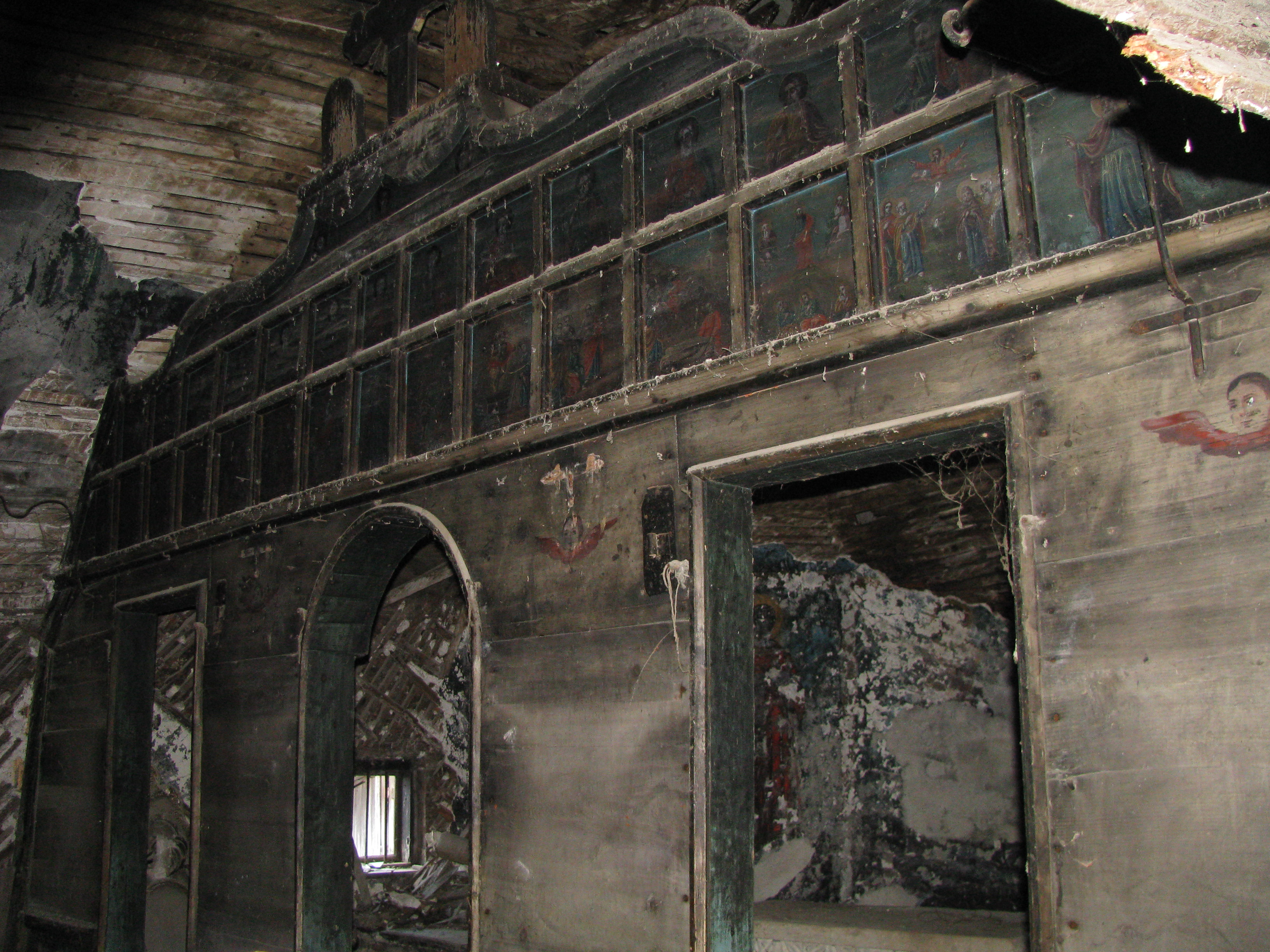 Wooden church "Nașterea Maicii Domnului" from Vișina village, Vișina commune, Dâmbovița county, Romania